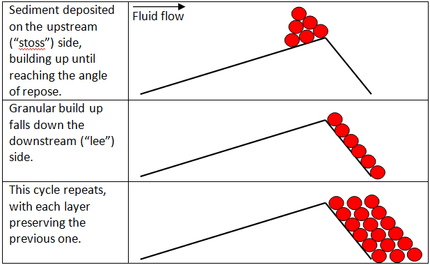 Diagram showing the formation of cross-stratification/cross-bedding.